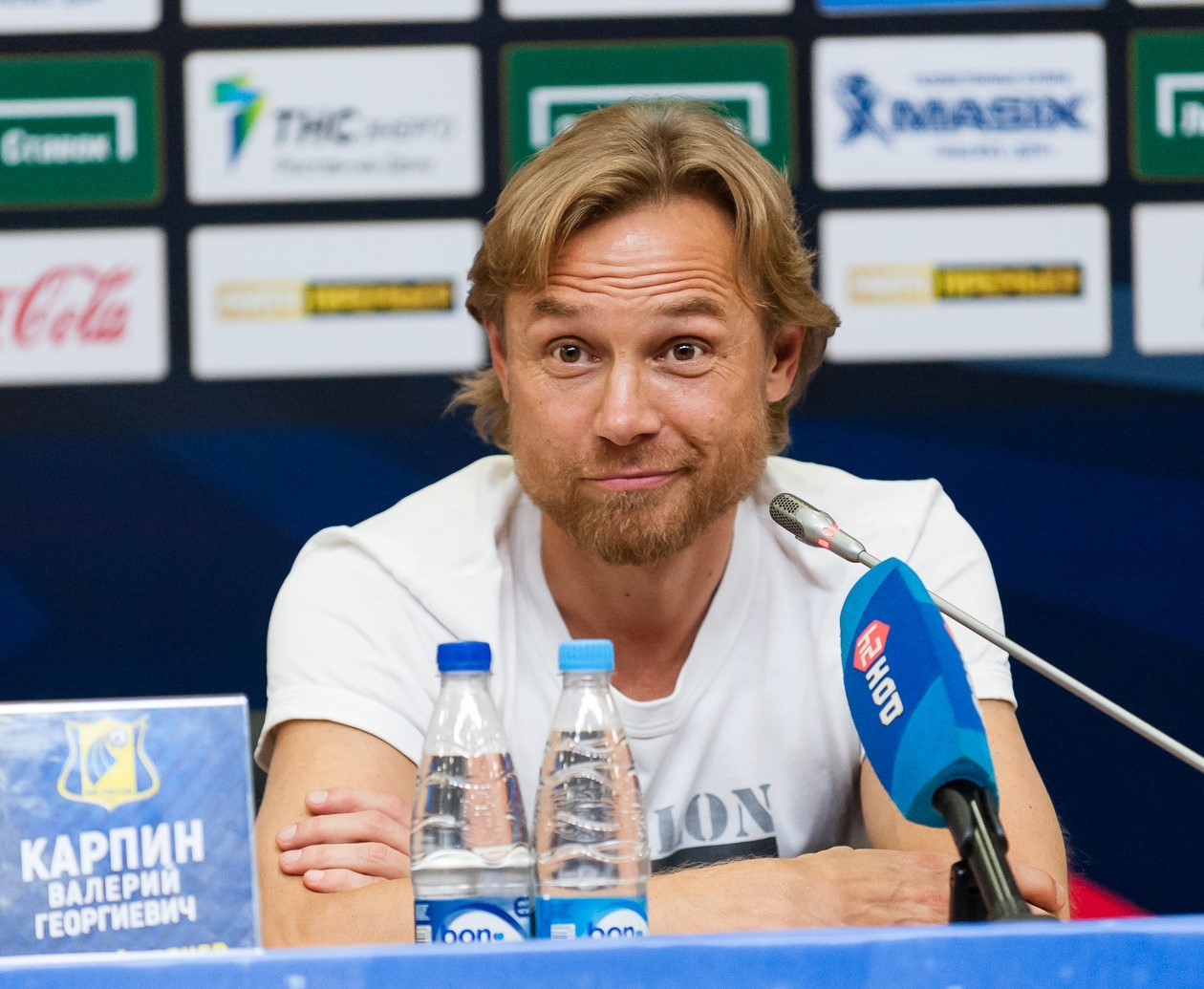 Valery Karpin